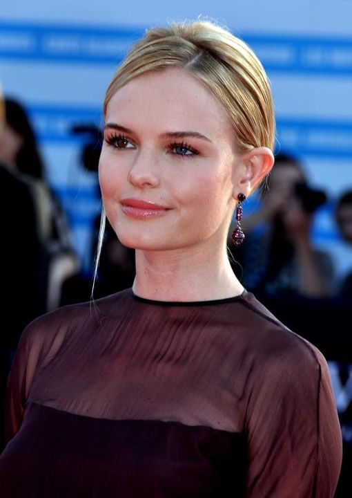 Kate Bosworth at the Deauville film festival